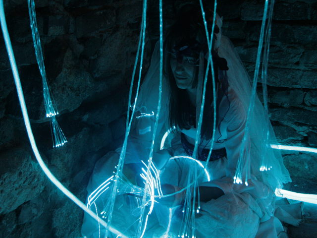 Long durational perfomance, 8h for manifestation Night of Museums, Roman Well, kalemegdan Fortress 2010